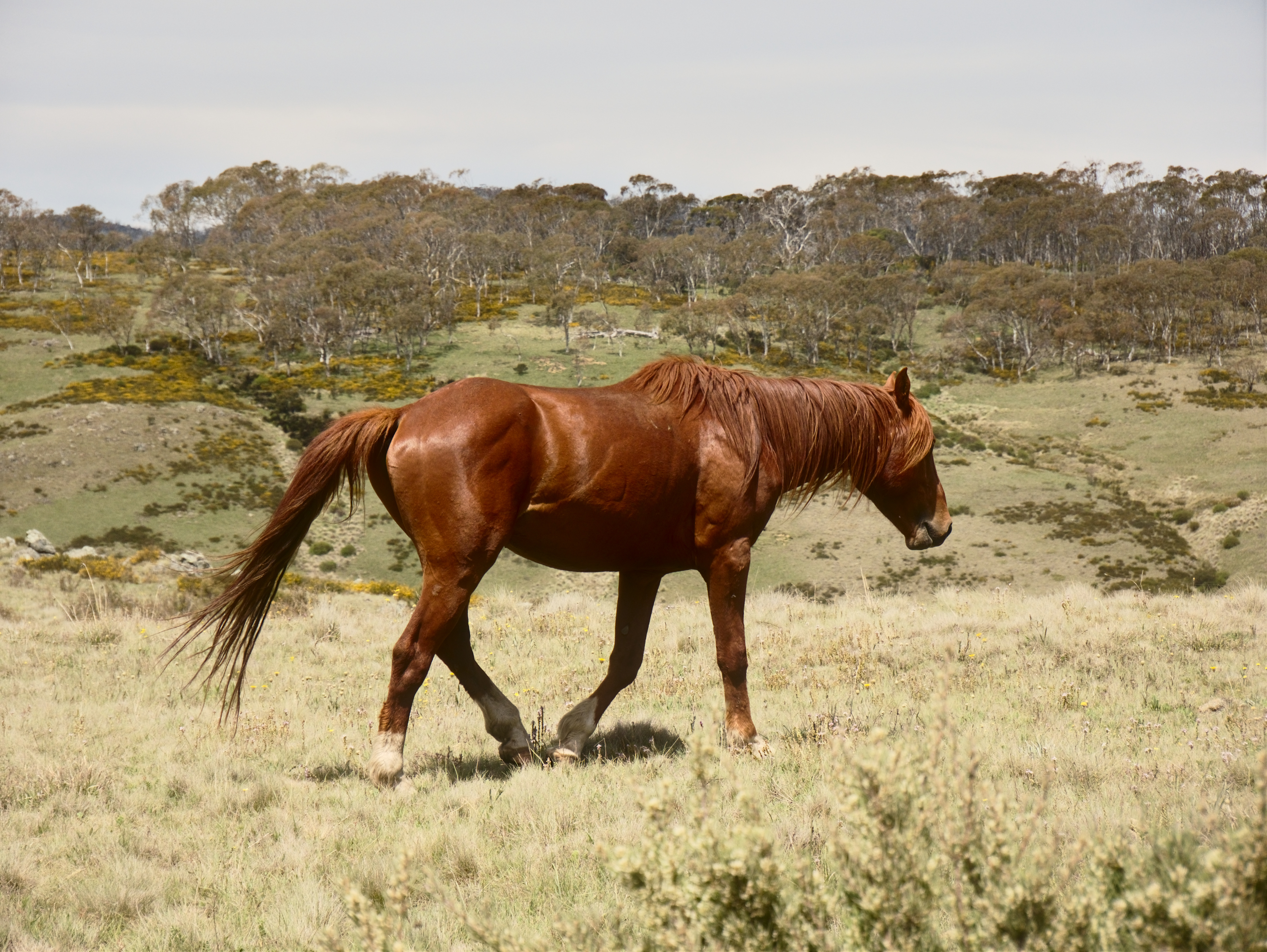 A wild horse spotted near Long Plain Road, near the Snowy Mountains Highway, NSW, in summer. These are (at the time of writing) protected under NSW State legislation, an unpopular law amongst environmentalists due to the damage they cause in Kosciusko National Park. They churn up the bogs and destroy an ecosystem that evolved without hoofed animals. This in turn affects water quality and the ability of the bogs to store and slowly release water through the summer.